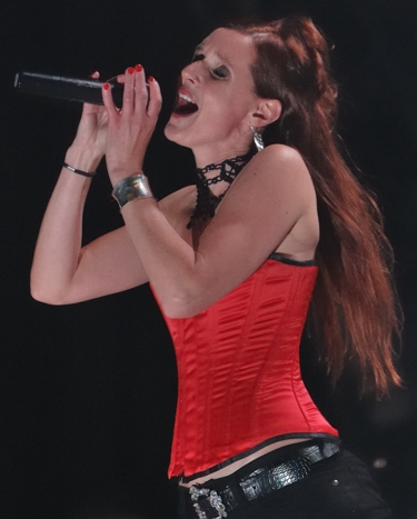 Nell Sigland of Theatre of Tragedy at Teatro Teletón, Santiago, Chile.